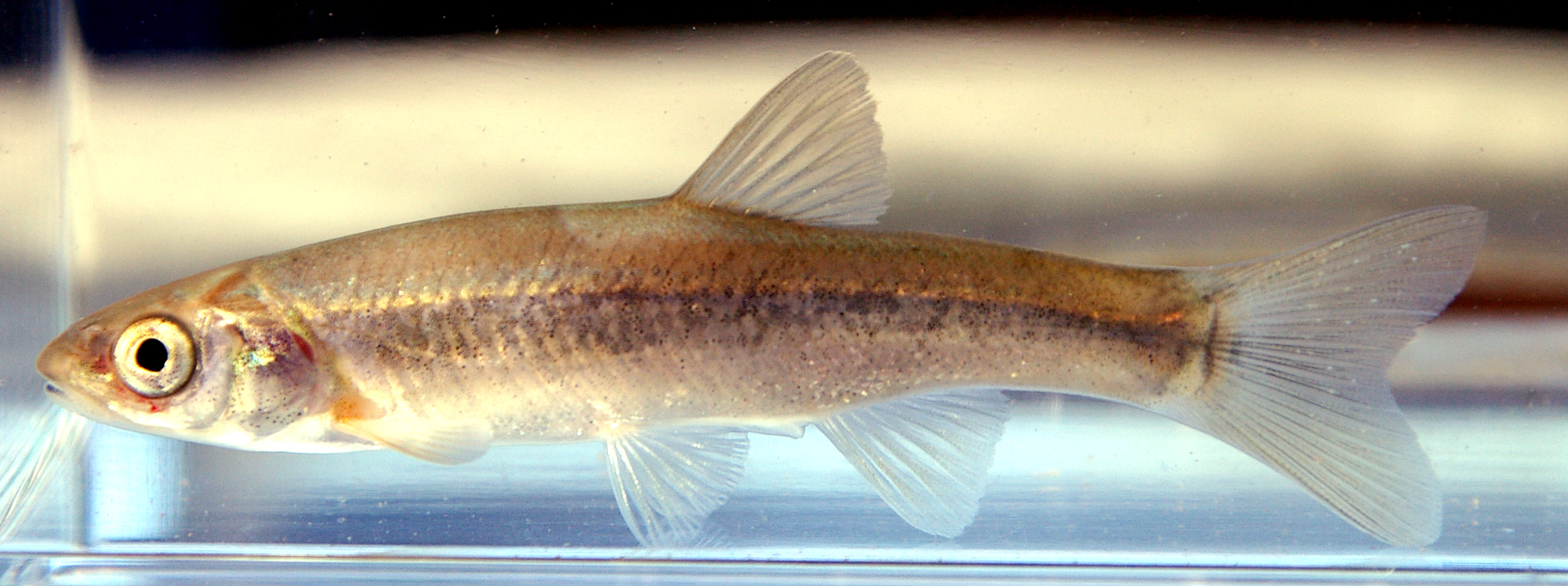 Rhynchocypris lagowskii Amur Minnow(Aburahaya)